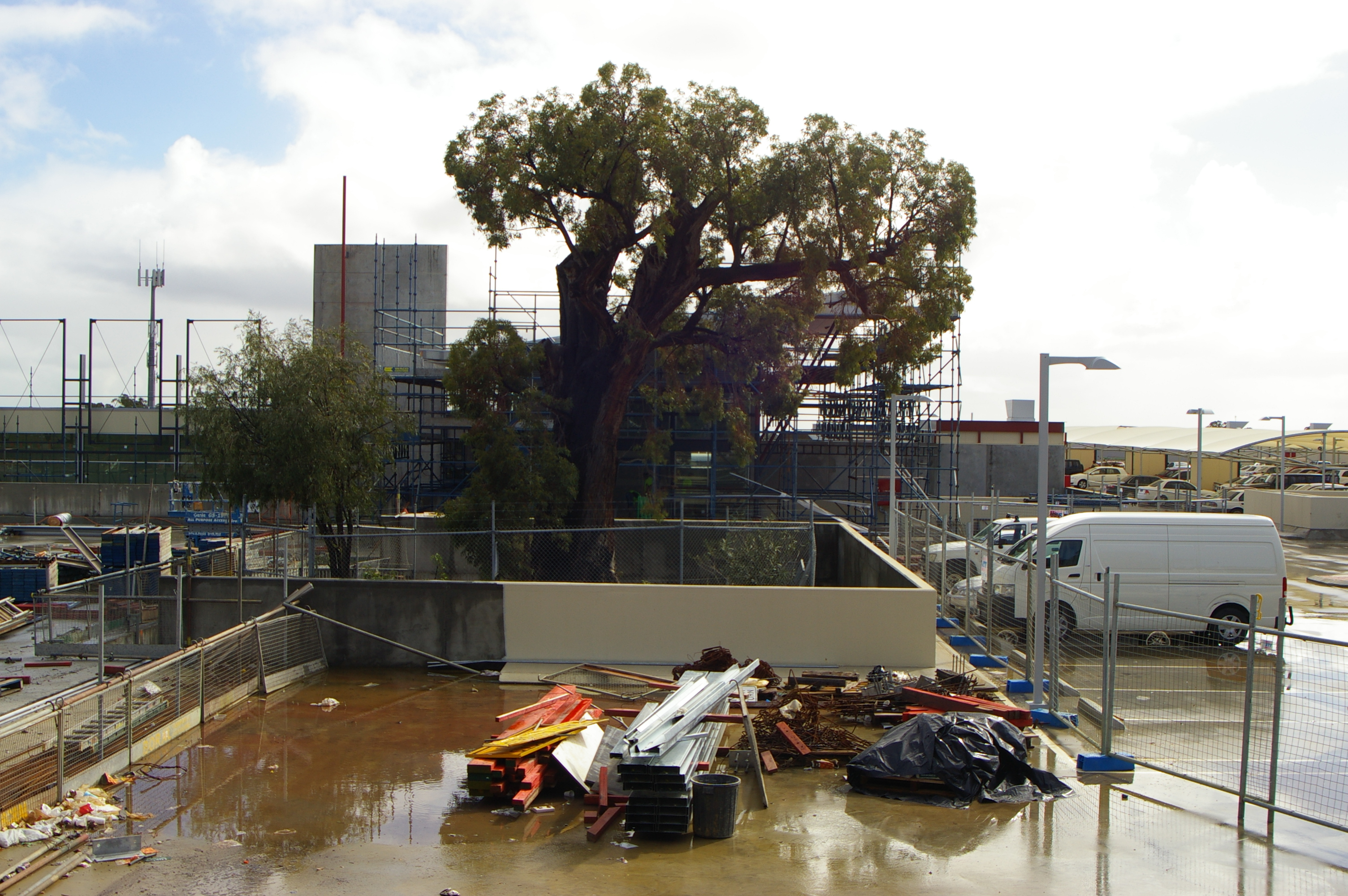 Heritage list Old Jarrah tree in Armadale Western Australia, estimated age is between 400-800 years. The building works around the tree are part of a multi story carpark.